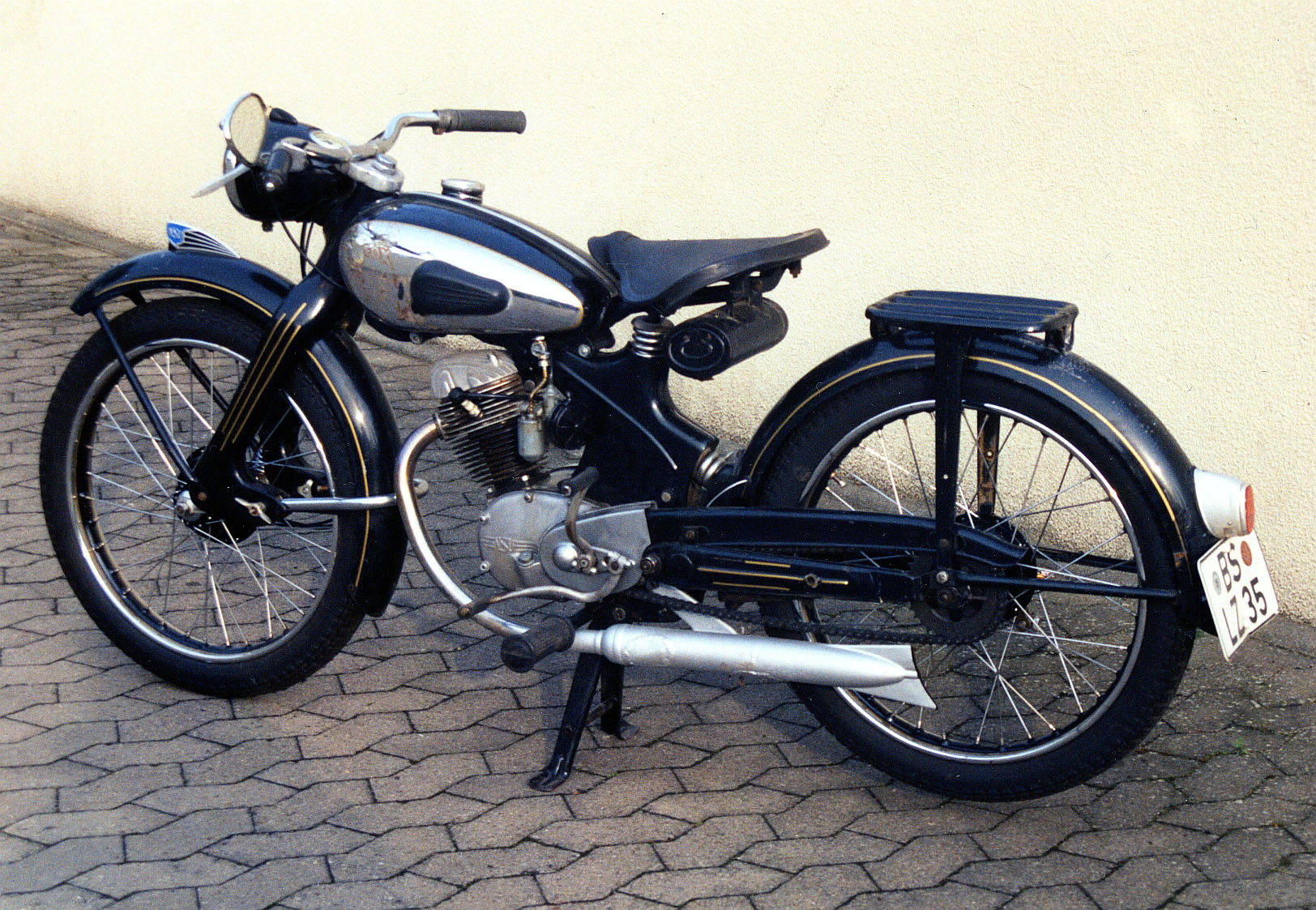 NSU 101 OSB Fox (four-stroke) motorcycle, 1954